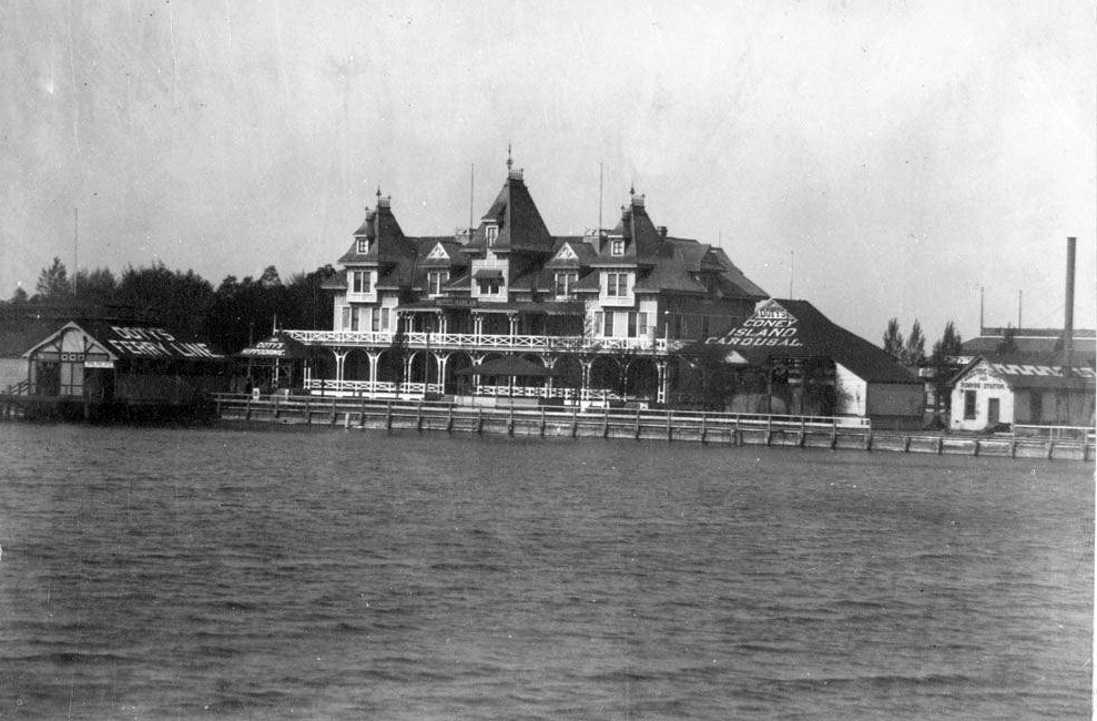 Hanlan Hotel, located on the Toronto Islands, Lake Ontario, Canada